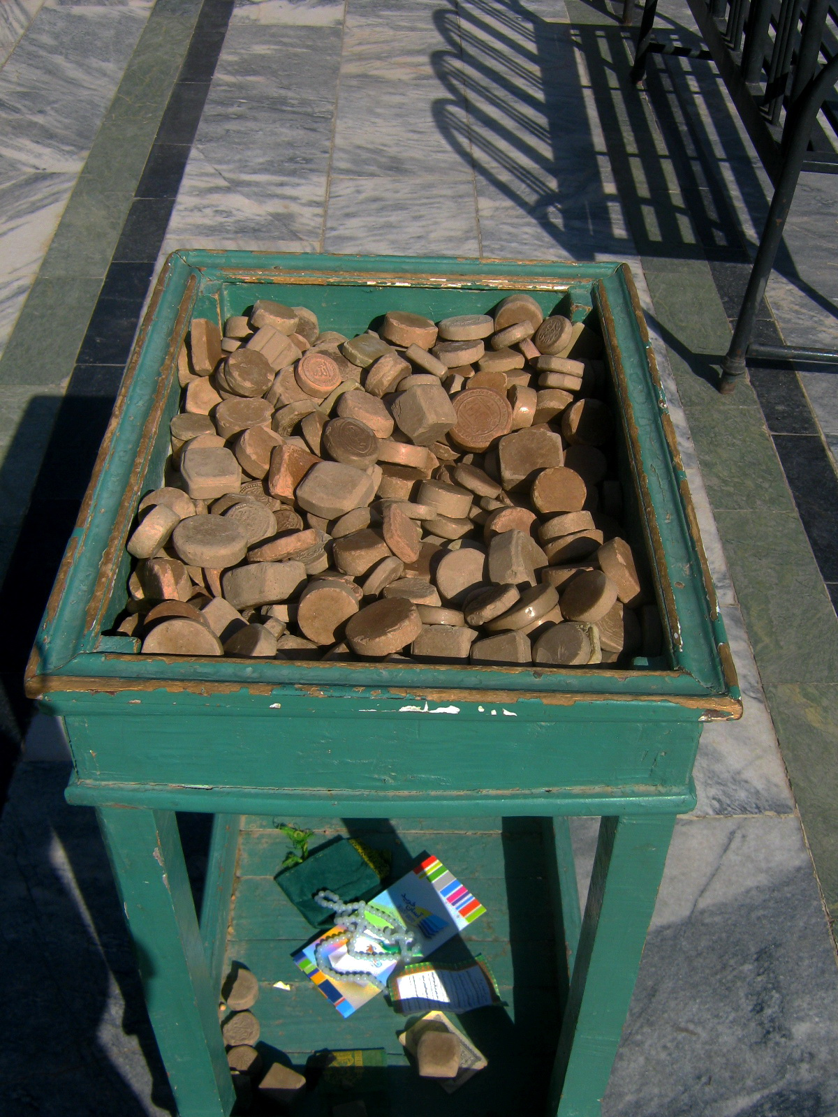 Turbat ul-Husayniaya - Grand mosuqe of Nishapur